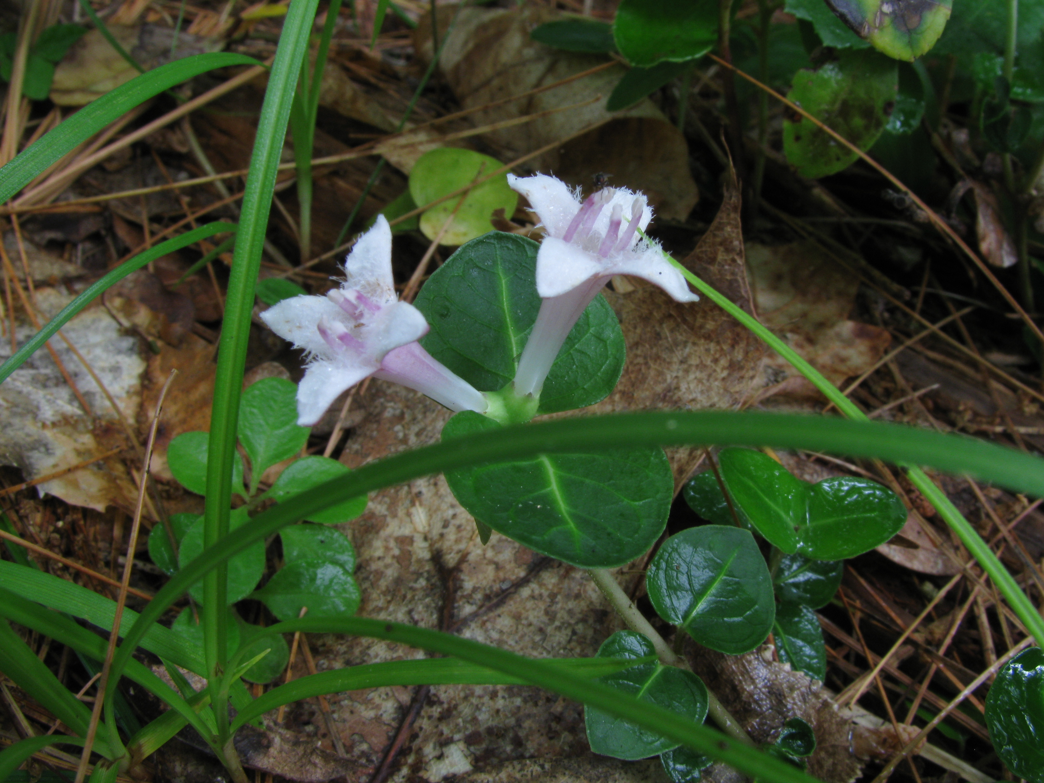 Twin flowers of Mitchella repens. There is also some sort of Diptera on the right blossom.